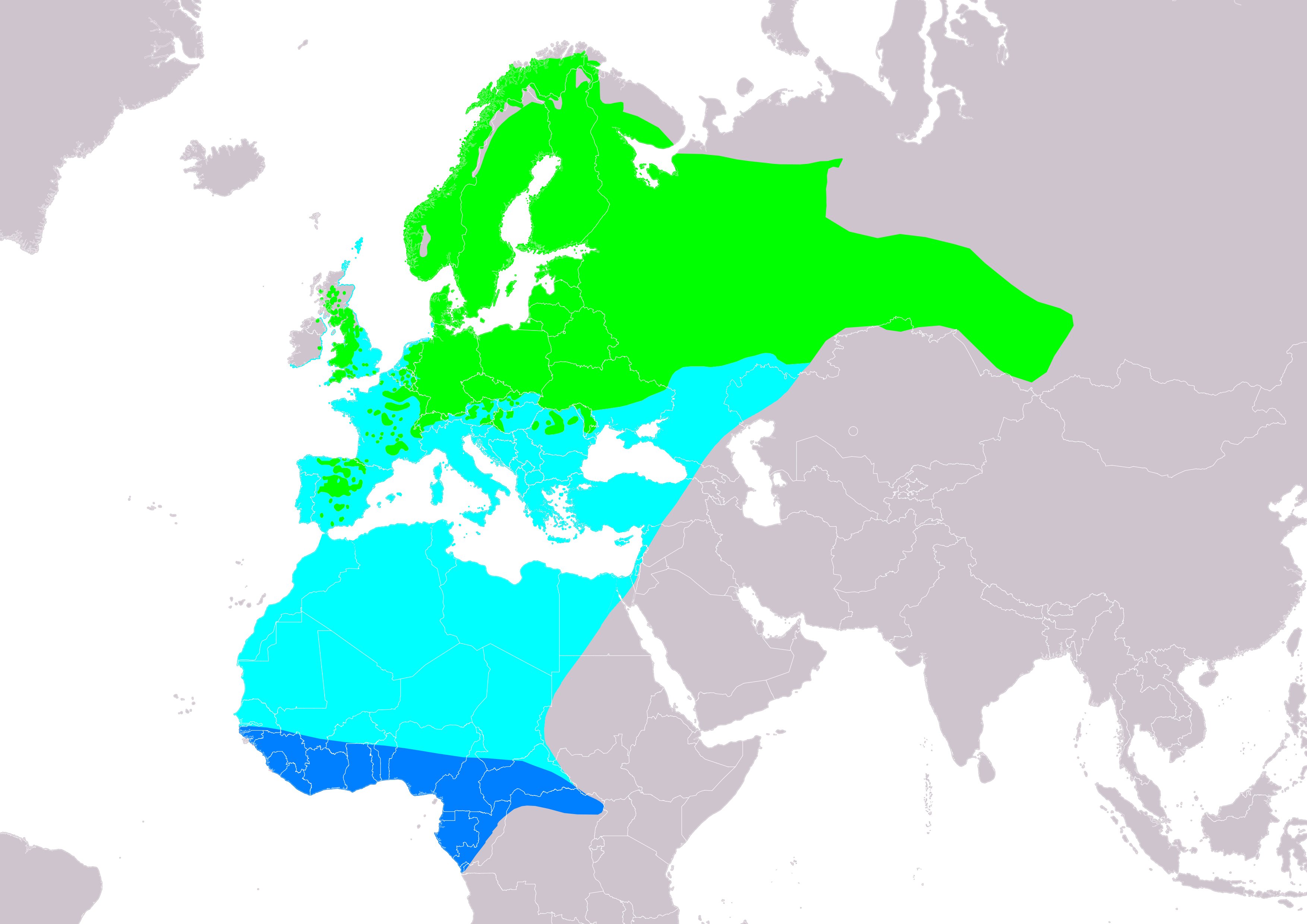 Distribution map of European Pied Flycatcher (Ficedula hypoleuca) according to IUCN version 2019-3; key: Legend: Extant, breeding (#00FF00), Extant, passage (#00FFFF), Extant, non-breeding (#007FFF)